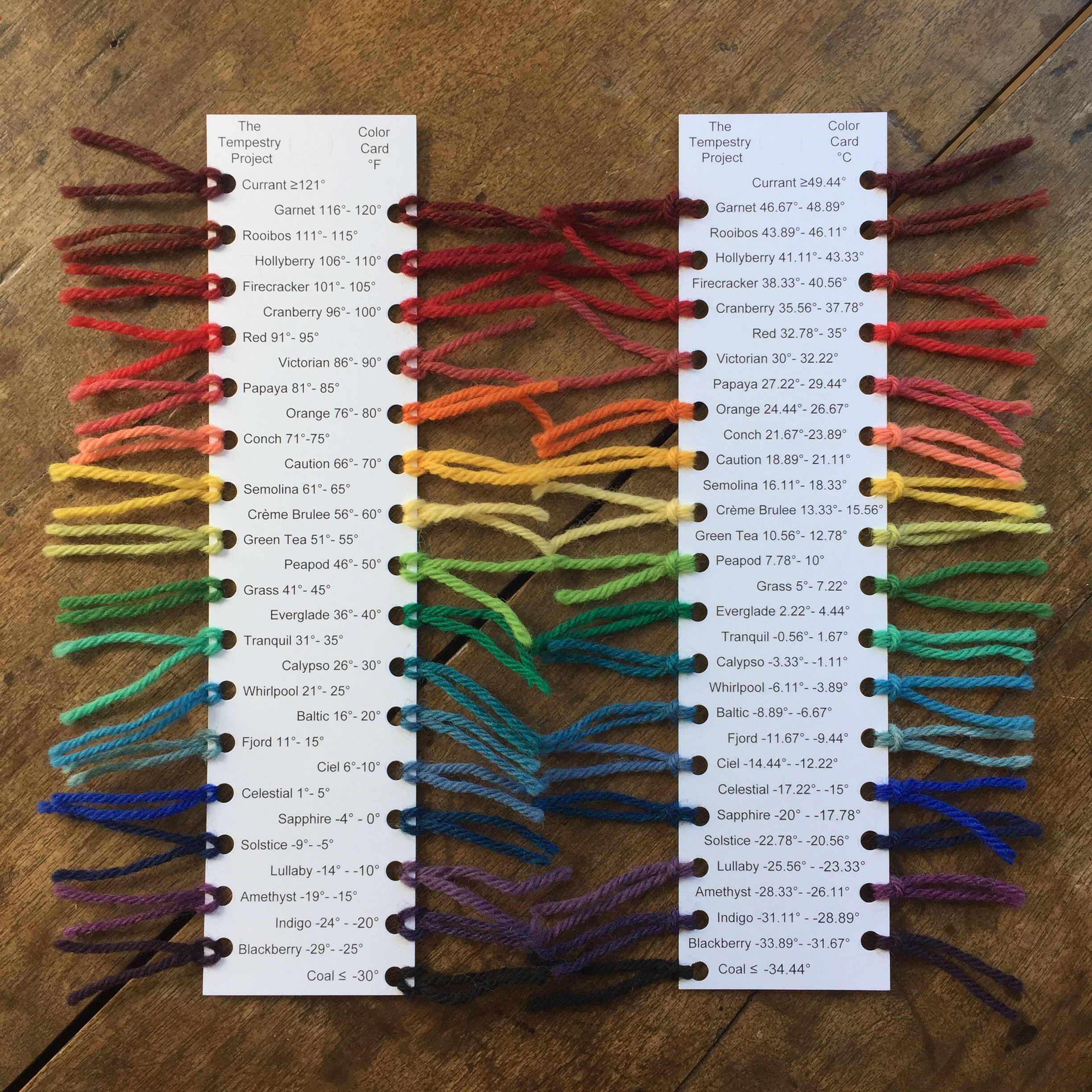 Tempestry Project color cards showing the yarn colors and corresponding temperature ranges in °F and °C.